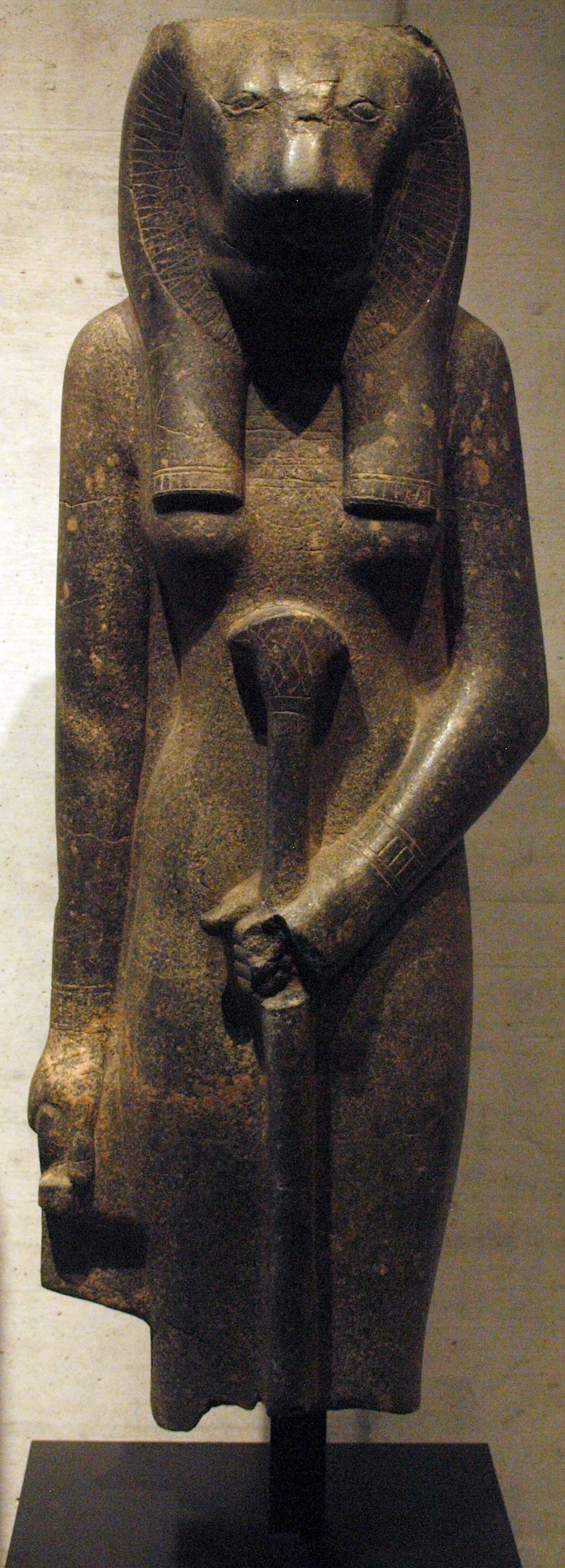 of Sekhmet Front Full View - from Temple of Mut Karnak